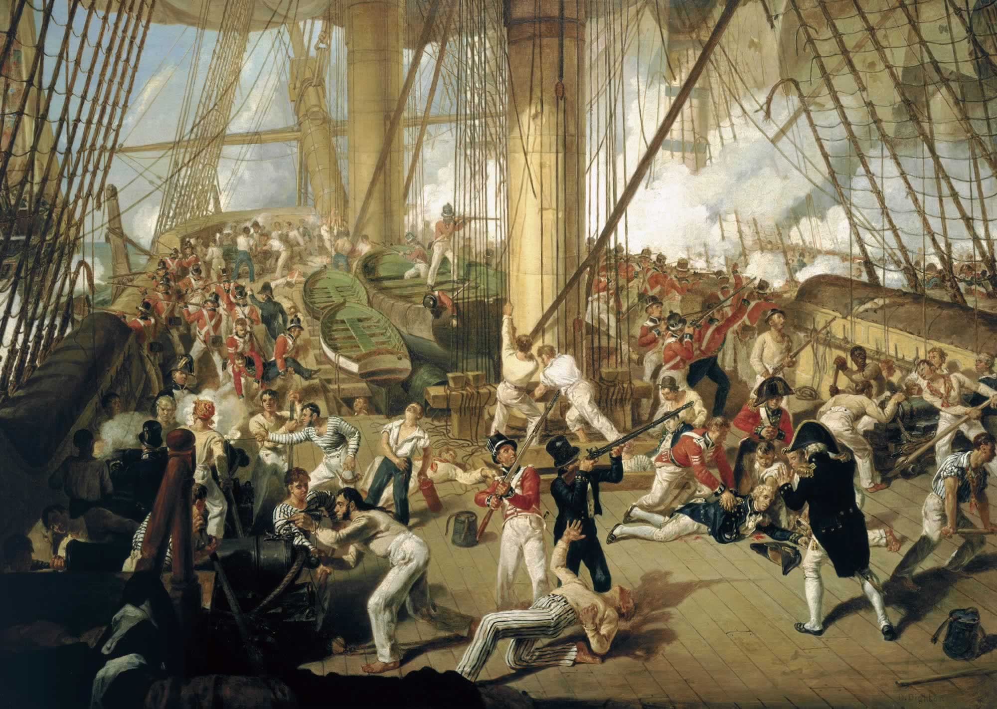 The Fall of Nelson, Battle of Trafalgar, 21 October 1805.